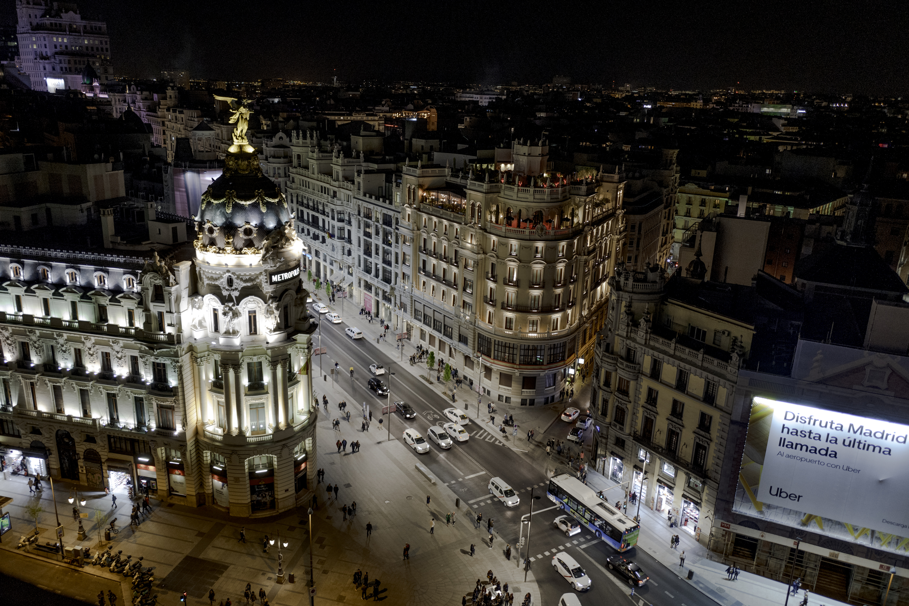 Madrid, España 7 8 ISO: 800